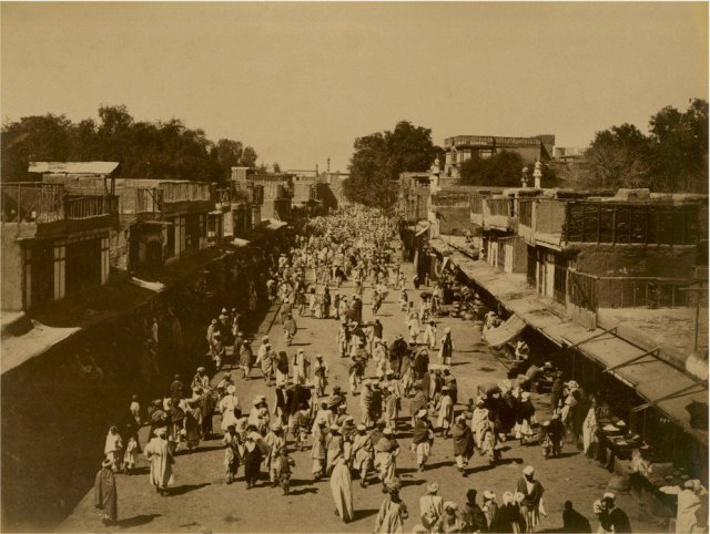 Peshawar city, Pakistan(In India in 1870), Edwardes Gate, c 1870.